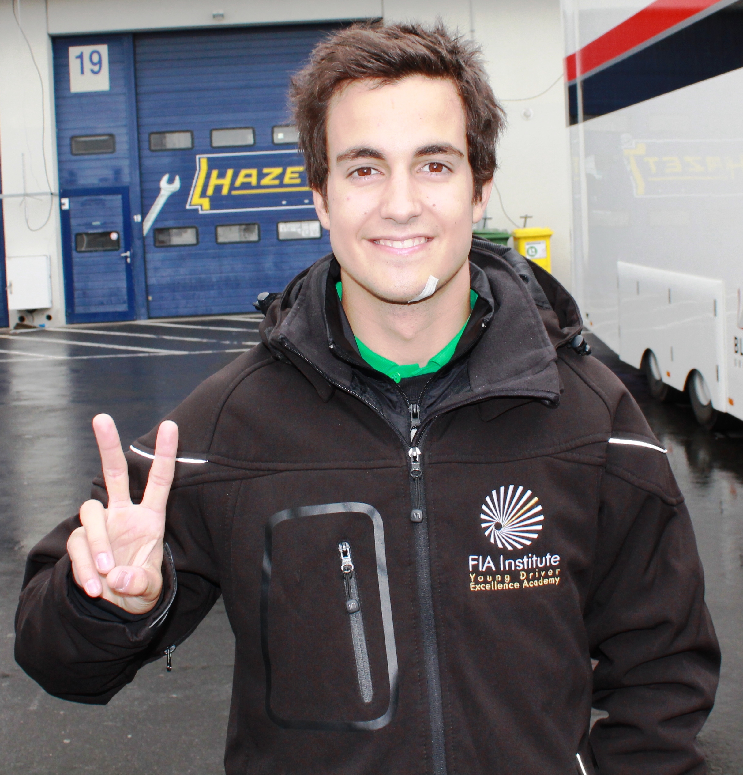 Albert Costa at the 2011 Nürburgring World series by Renault round